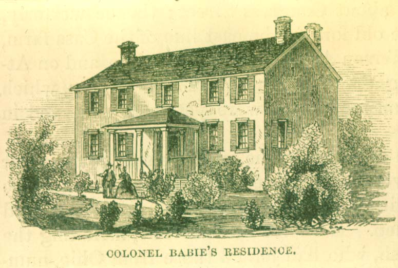 Sketch by Lossing which shows the original structure of the François Baby House during the time of the War of 1812.